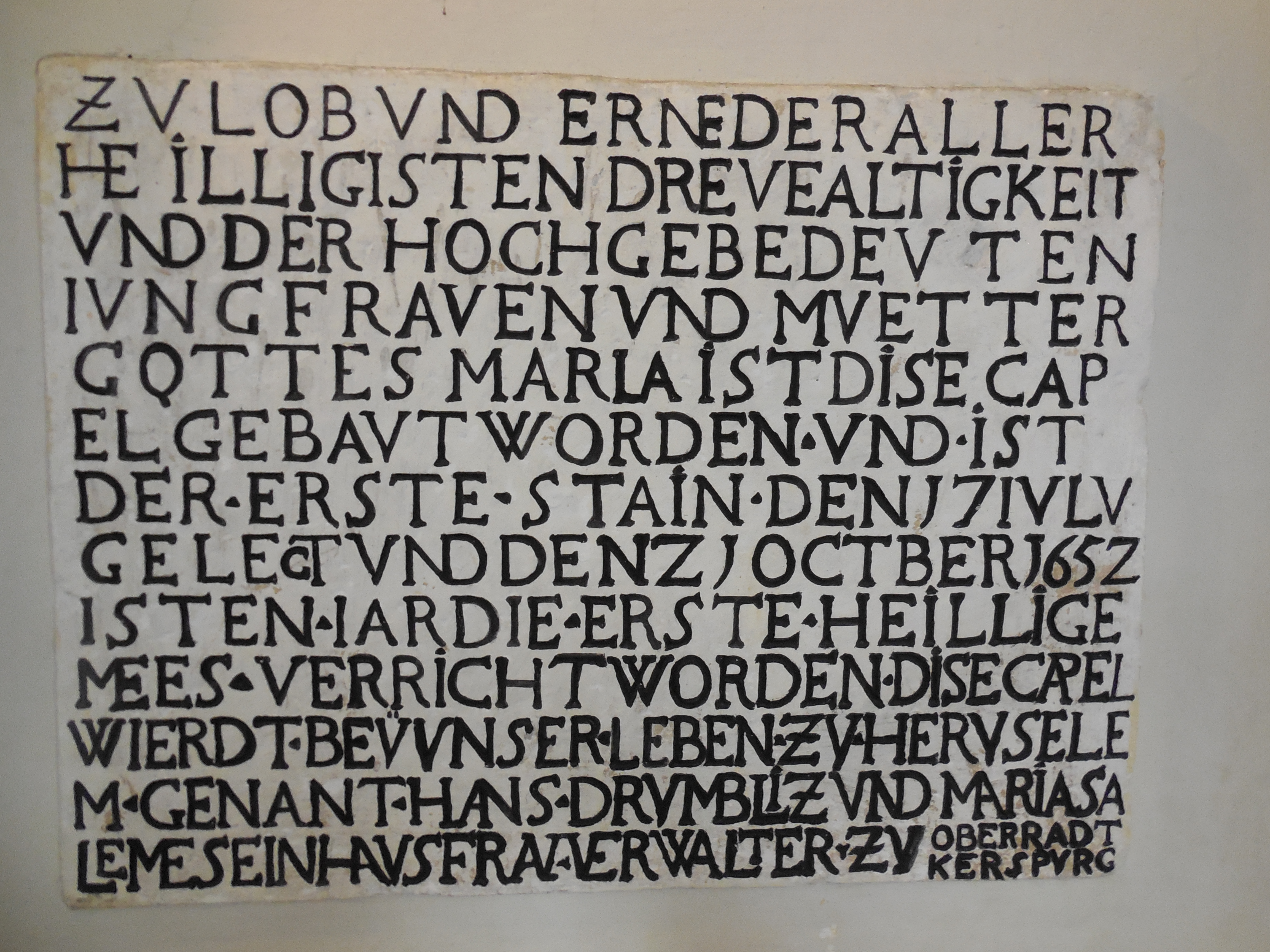 German inscription, Our Lady Of Sorrows Curch, Jeruzalem, Slovenia